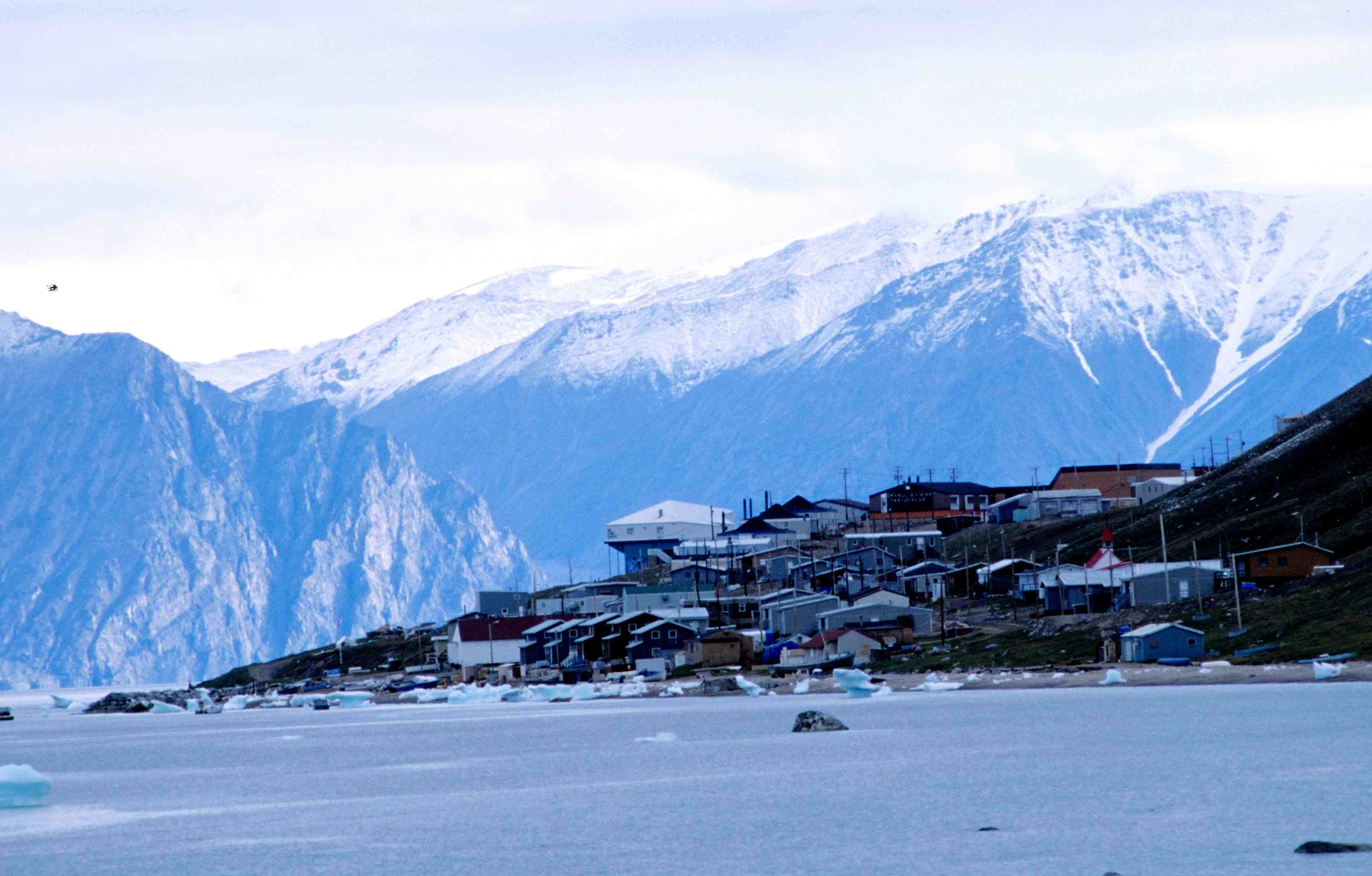 Pond Inlet (background: Bylot Island)